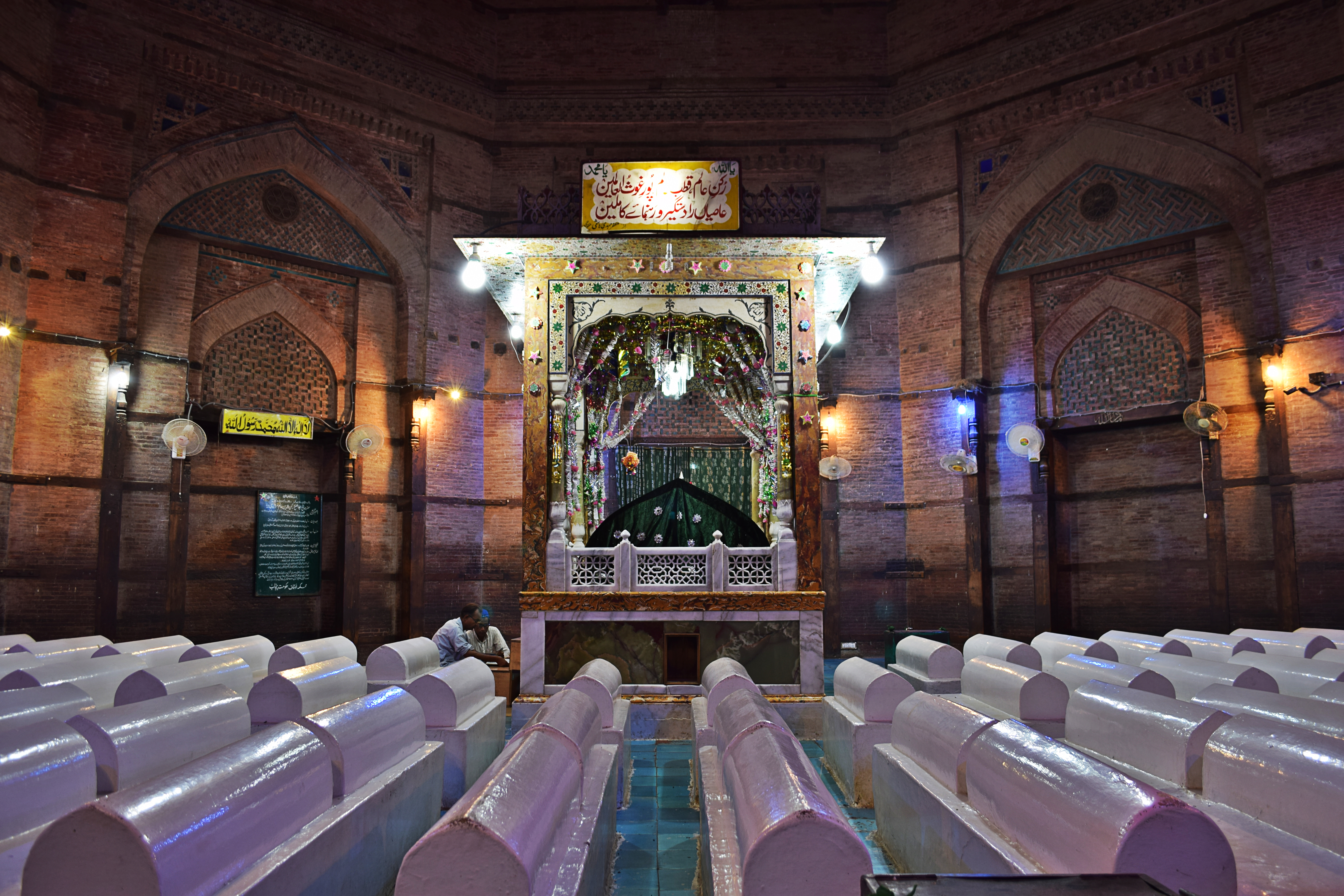 This is a photo of a monument in Pakistan identified as the PB-105